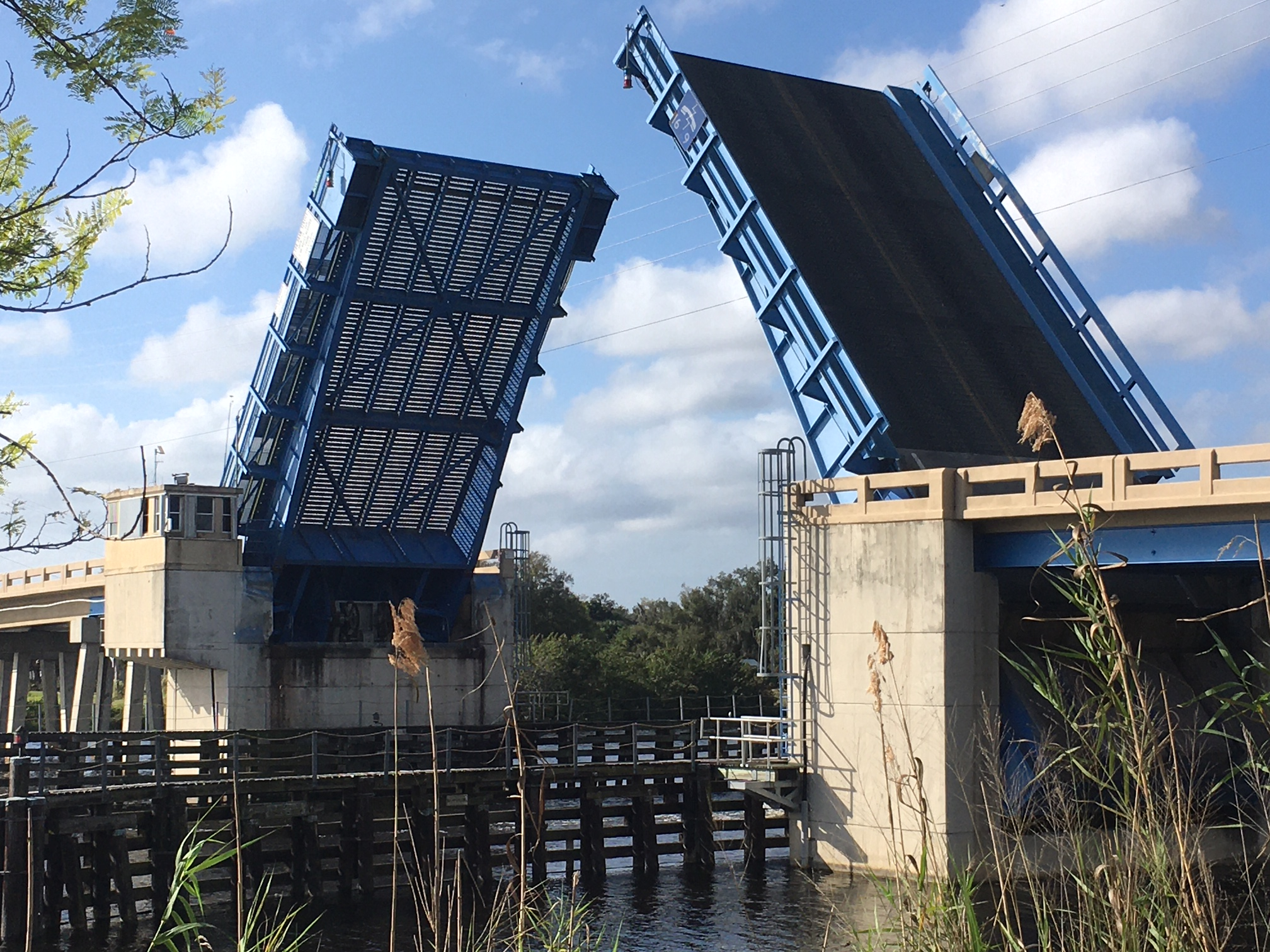 Alva bridge open for river traffic. As seen from the northeast